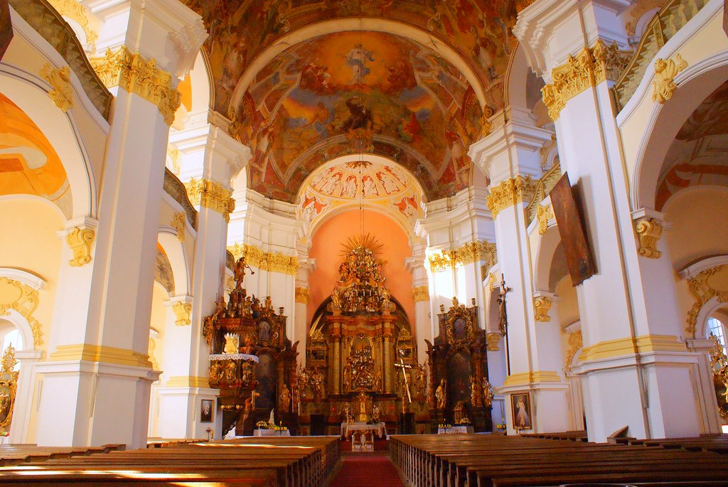 Church of Saint Mary and Saint Maternus in Lubomierz